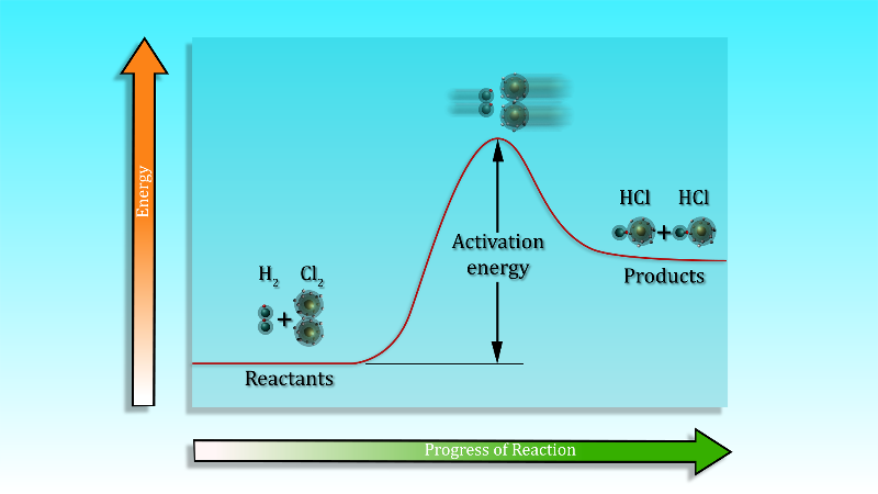 This product was funded by a grant awarded by the U.S. Department of Labor's Employment and Training Administration. The product was created by the grantee and does not necessarily reflect the official position of the U.S. Department of Labor. The Department of Labor makes no guarantees, warranties, or assurances of any kind, express or implied, with respect to such information, including any information on linked sites and including, but not limited to, accuracy of the information or its completeness, timeliness, usefulness, adequacy, continued availability, or ownership.